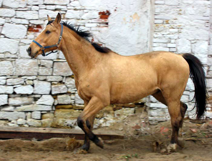 Kinsky horse gelding named Jerome Kinský, Czech Republic